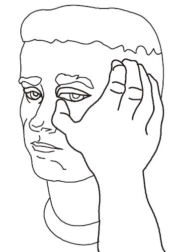 From USMC MCRP 3-02B Close Combat February 1999, Section 4-7. Source of download